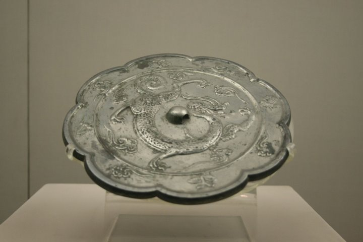 Chinese bronze mirror with raised-relief design of a dragon, from the Tang Dynasty (618-907 AD) of medieval China.